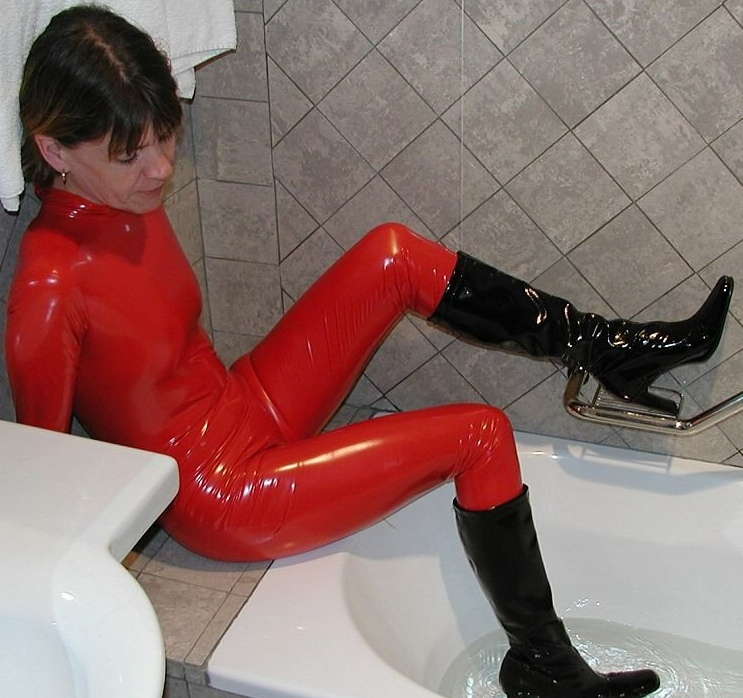 Woman in red catsuit